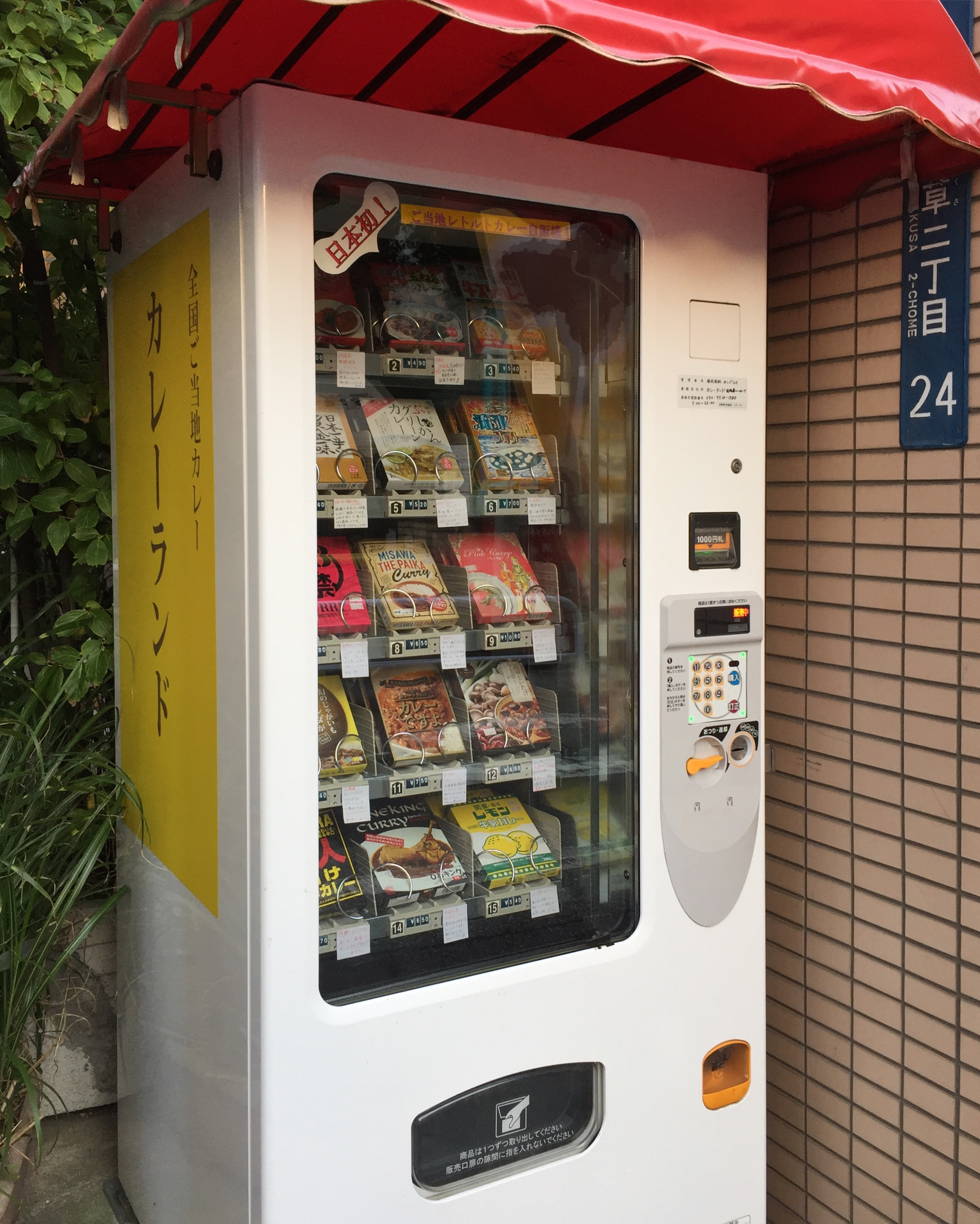 vending machine of Japanese local curries in retort pouches at Asakusa in Tokyo 2018-9-23